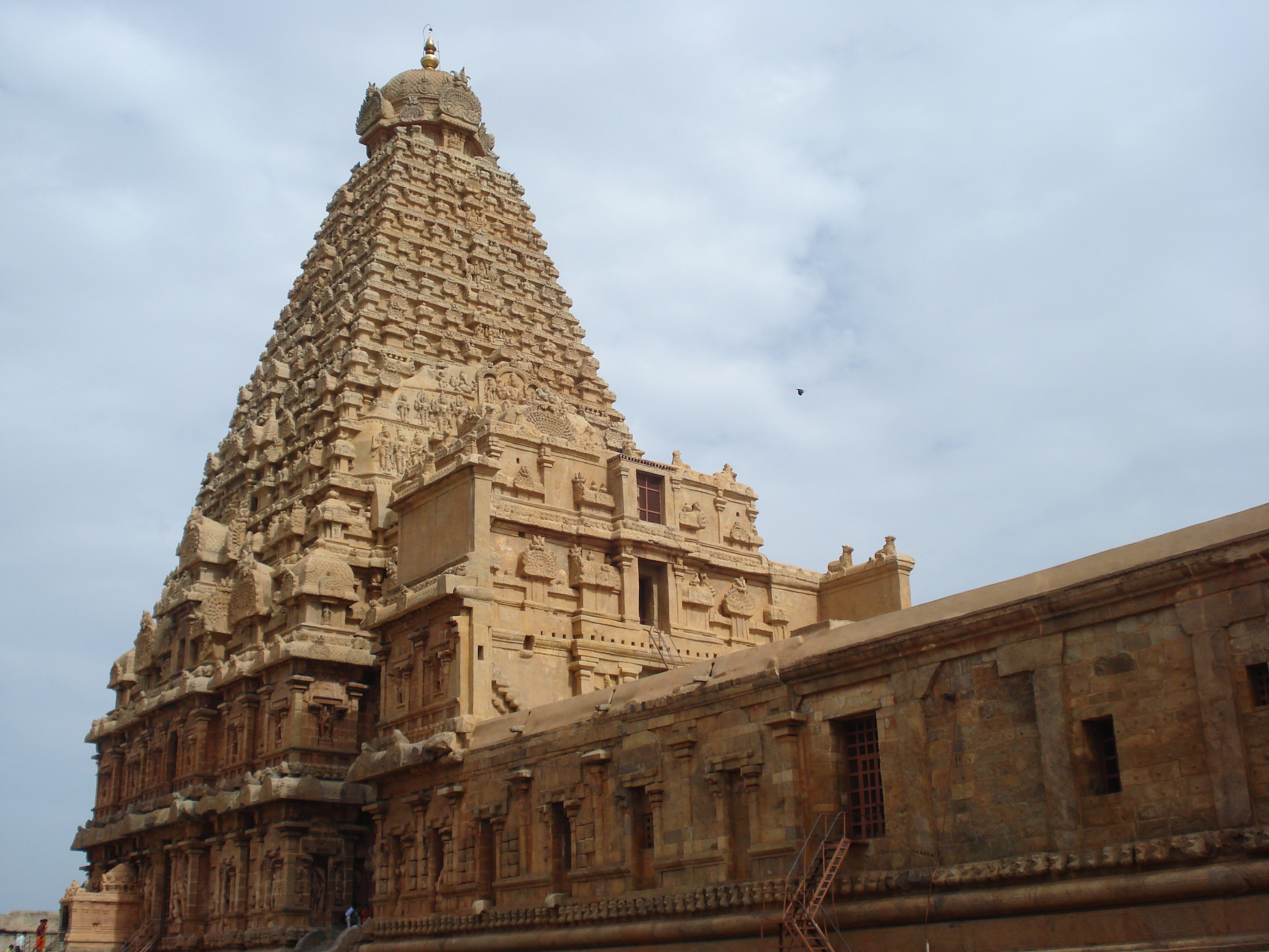 The Dhakshina Meru Vimanam of Big Temple is 64.8 mtrs tall with 14 tiered.The octagonal Shikharam rests on a single block of granite weighing 81.3 tones.